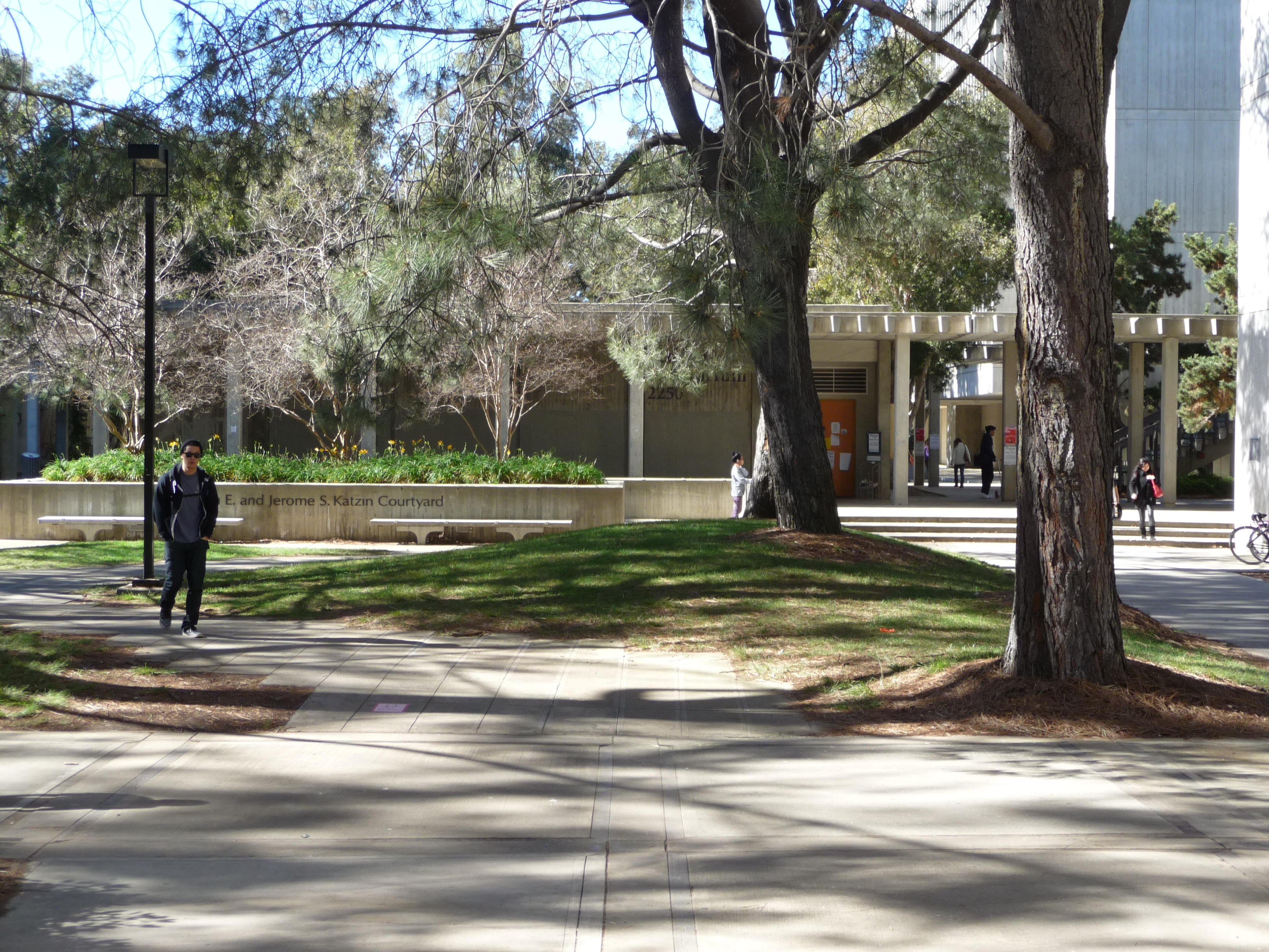 A courtyard in Muir College at UCSD.